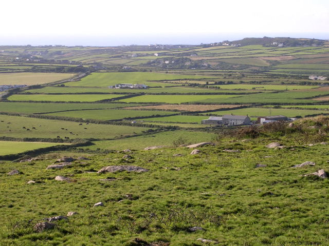 View northwest from Carn Brea, Penwith. The hill of Carn Brea in Penwith is sometimes called the "first and last hill", given that its proximity to Land's End. Like the other Carn Brea (near Redruth) this hill was the site of prehistoric activity, with many stone-built burial cairns and signs of settlement. The hill is also a fine viewpoint over this southwestern tip of England. Everything in the lower half of the photo is in the grid-square, including Little Brea farm.